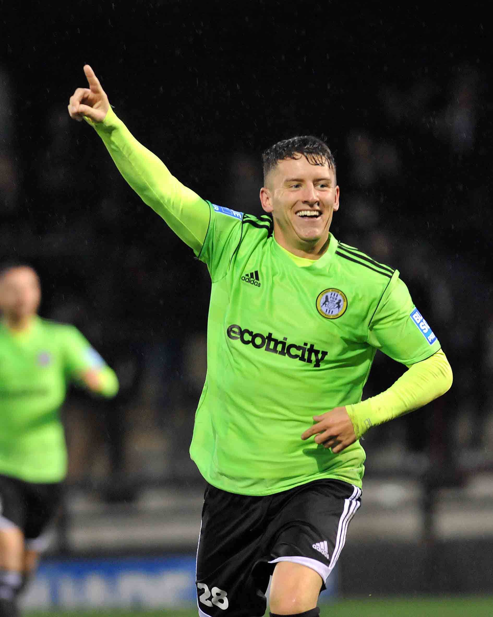 Steve Brogan playing for Forest Green Rovers during the 2012/13 season.